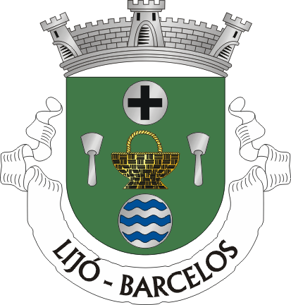 Crest of Lijó, a parish in the municipality of Barcelos (Portugal)